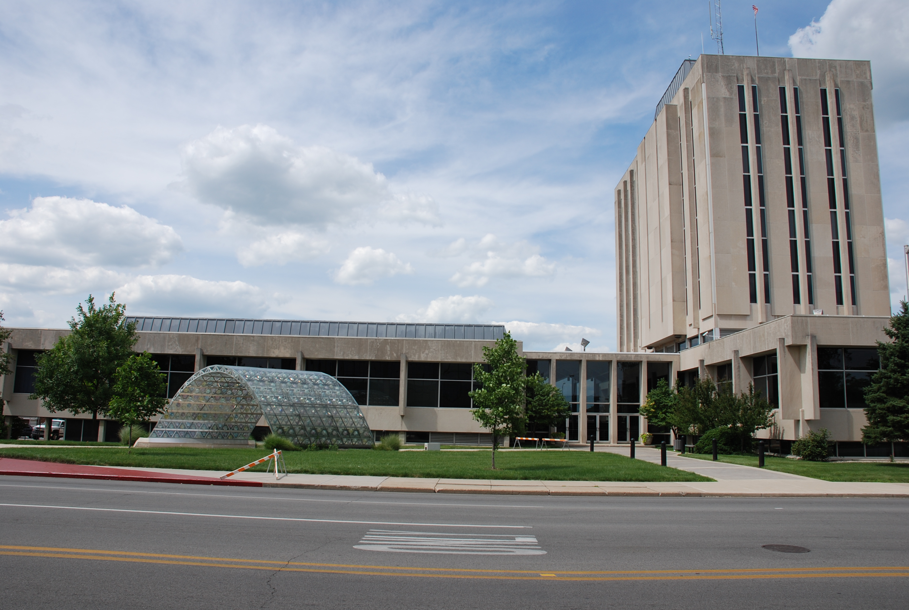 The Anderson City Hall, downtown. Taken by Kpaul.mallasch, taken in Sept. 07, uploaded April 09